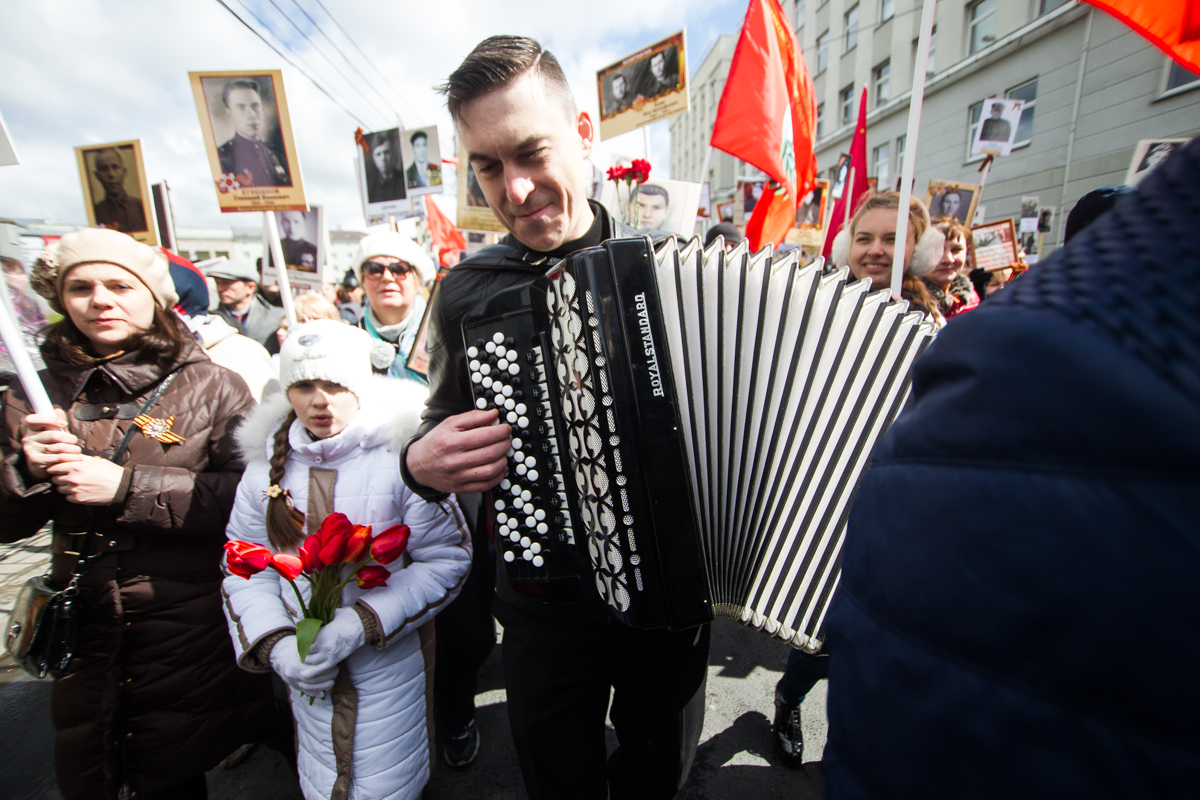 Victory Day in Kaliningrad 2017-05-09